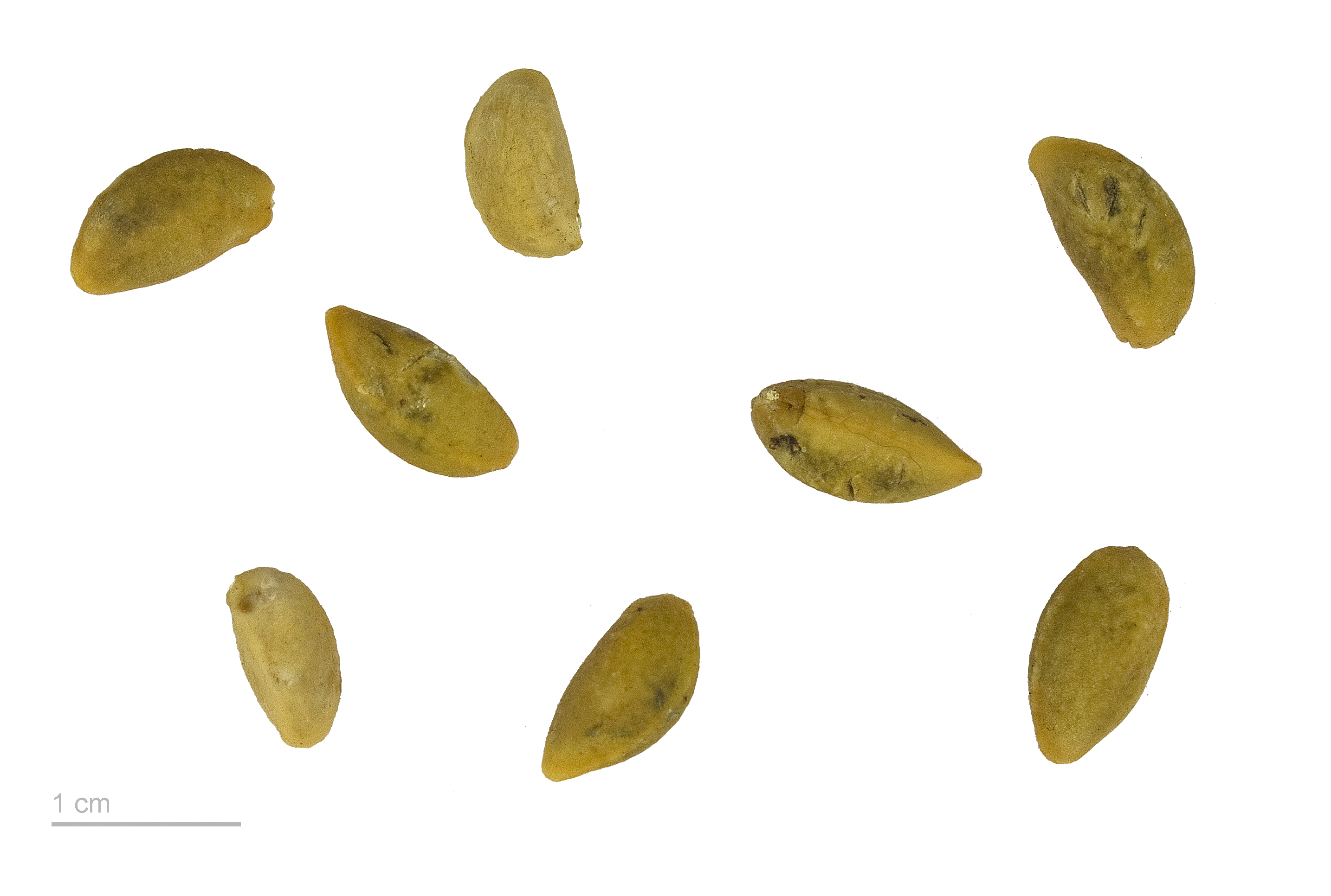 Roughbark Lignum-vitae , fruits and seeds